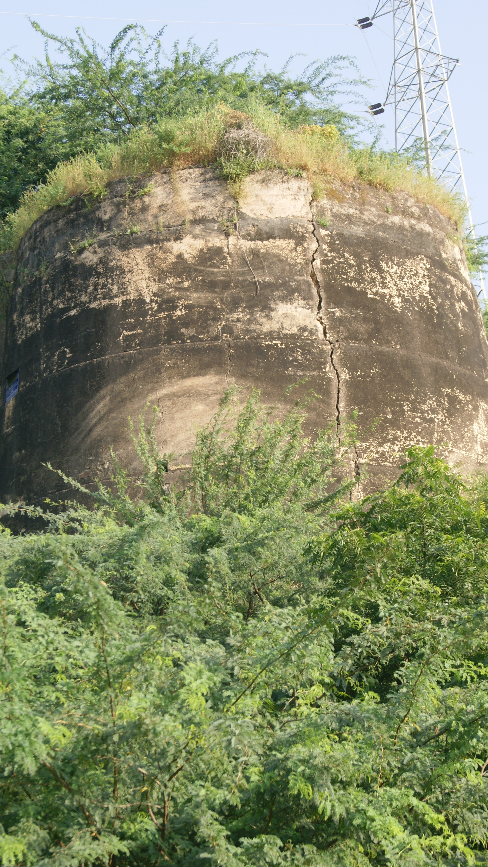 Kalpi Fort: The fort of Kalpi stands on clay cliffs overlooking river Yamuna. It is walled on three sides and defended on fourth sides by the cliffs and river. Kalpi fort is a rectangular structure with a dome on top and is 120 feet above riverbed. The wall of the fort is 9 feet thick. Kalpi fort was a stronghold of Chandelas. It was also important position of Delhi Sultans and line of communications along Yamuna. During Marathas the fort served as Treasury. At present the fort is used as rest house of Forest Department.